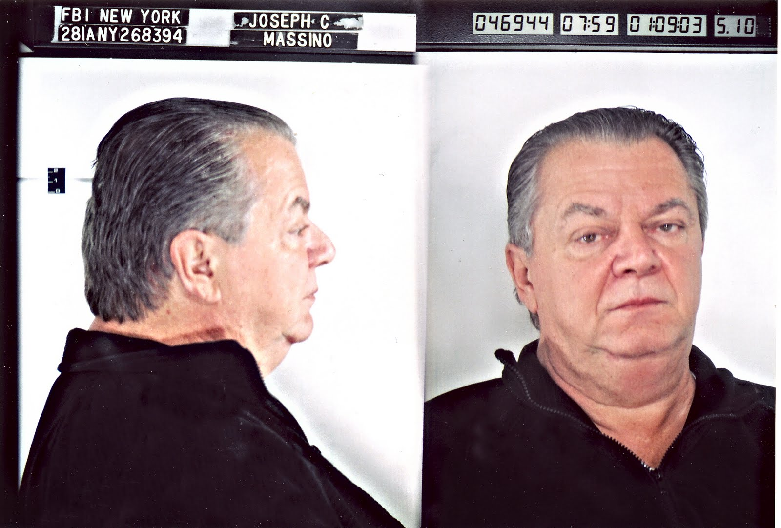 FBI mug shot of Joseph Massino